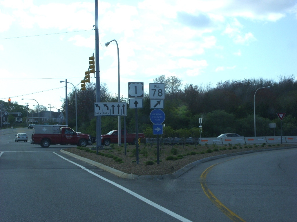 Route 78 at the eastbound terminus with US Route 1 in Westerly, RI.